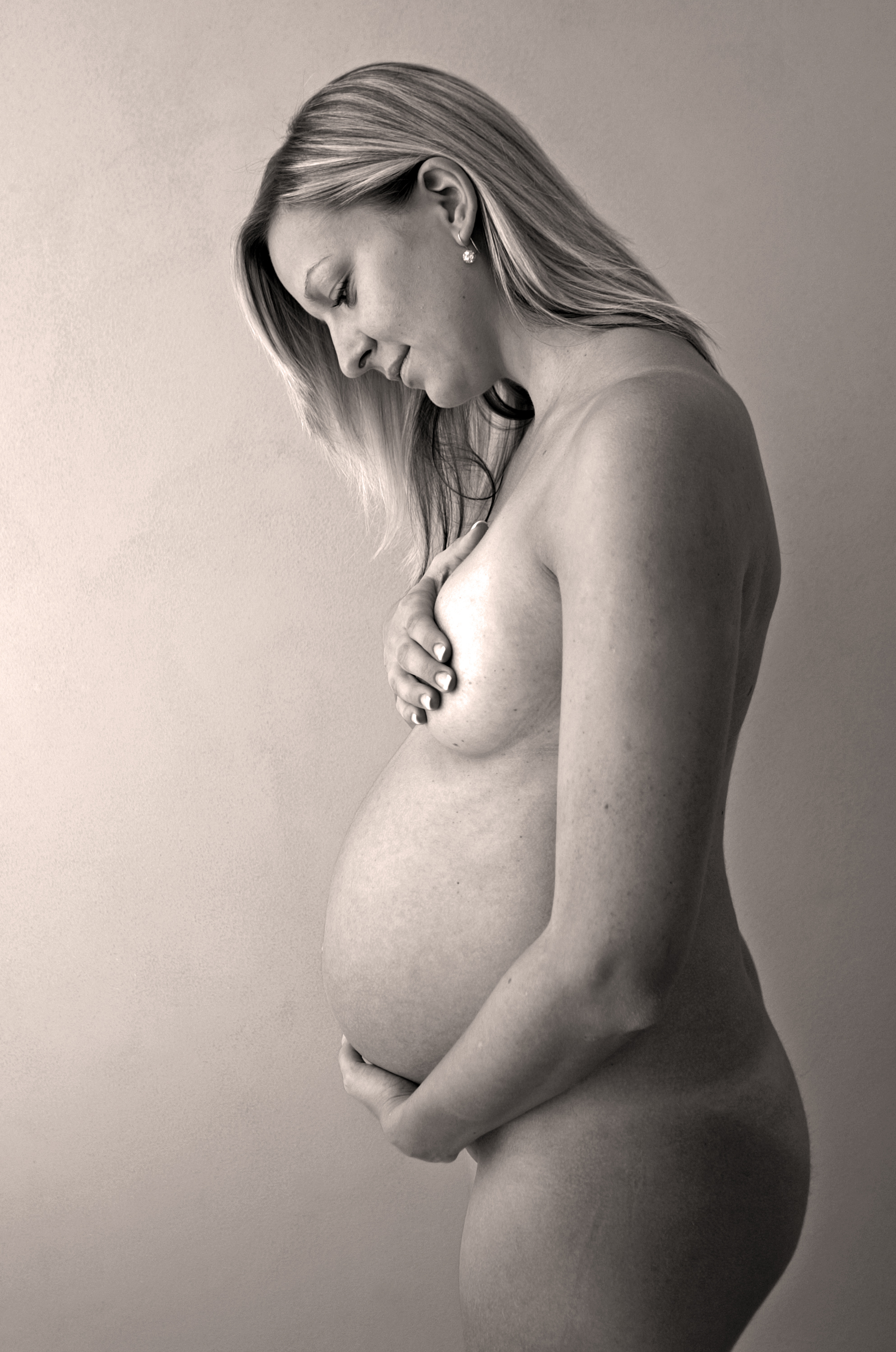 A black and white photograph of a pregnant woman